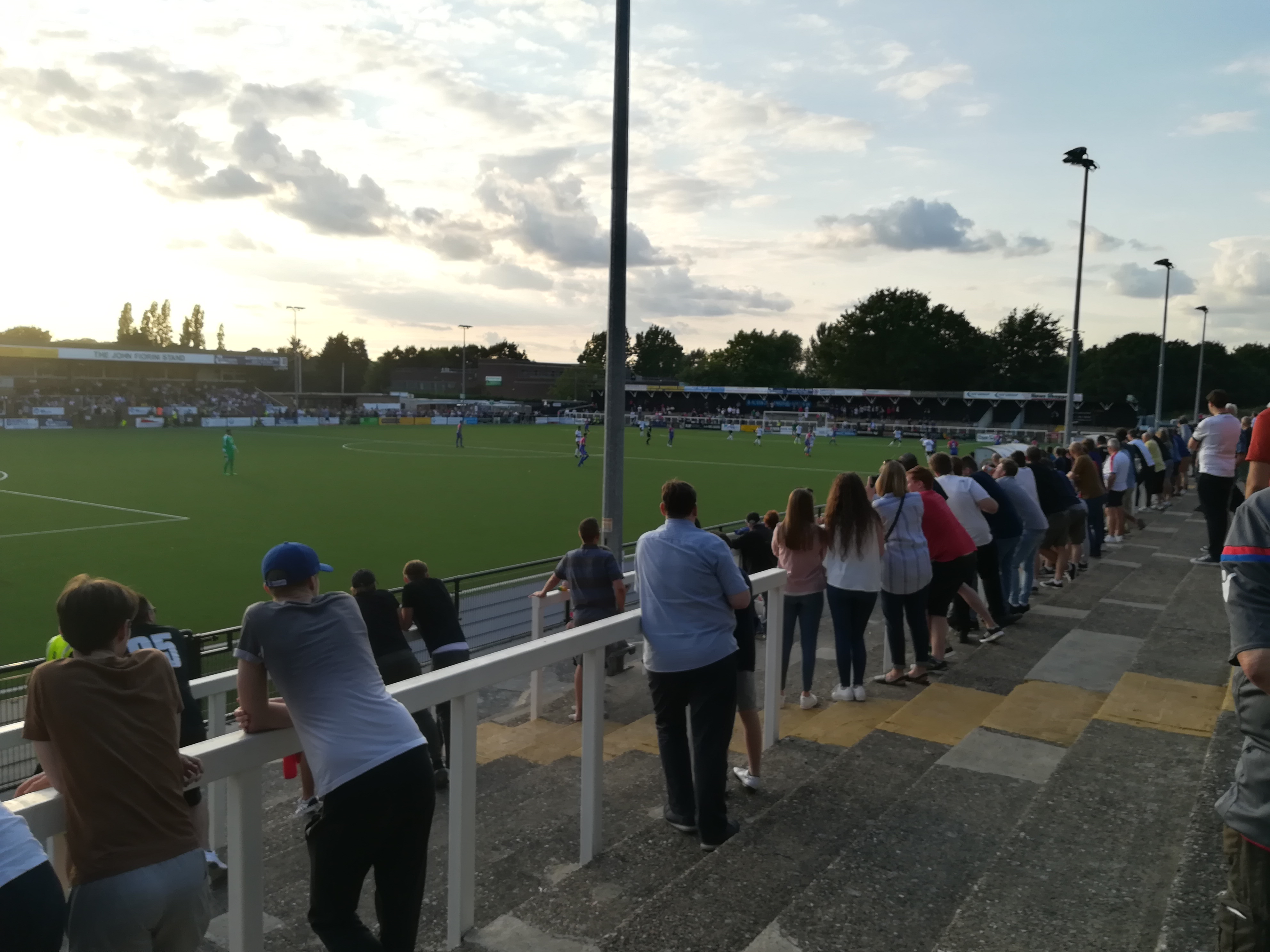 Hayes lane football ground, During a preseason match between Crystal Palace XI and Bromley FC